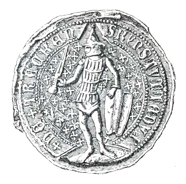 Kęstutis pedestrian seal 1379 with inscription: "S[igilum] KYNSTVTTE DVX + DE + TRACKEN"